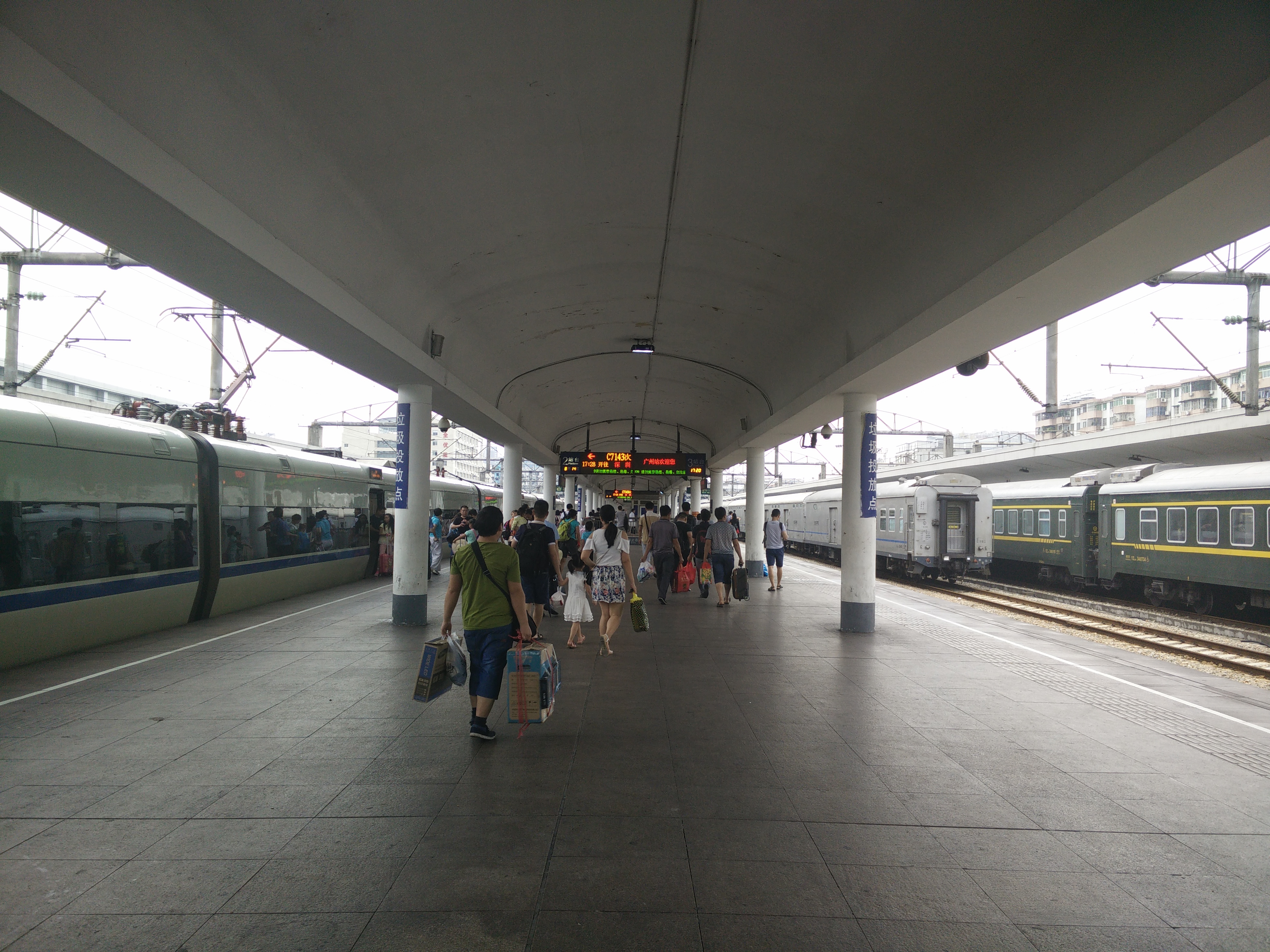 Platform 2 of Guangzhou Railway Station, with a Guangzhou-Shenzhen CRH train stopped